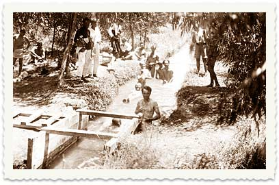 Members of the Ein Harod wash at the stream channel .